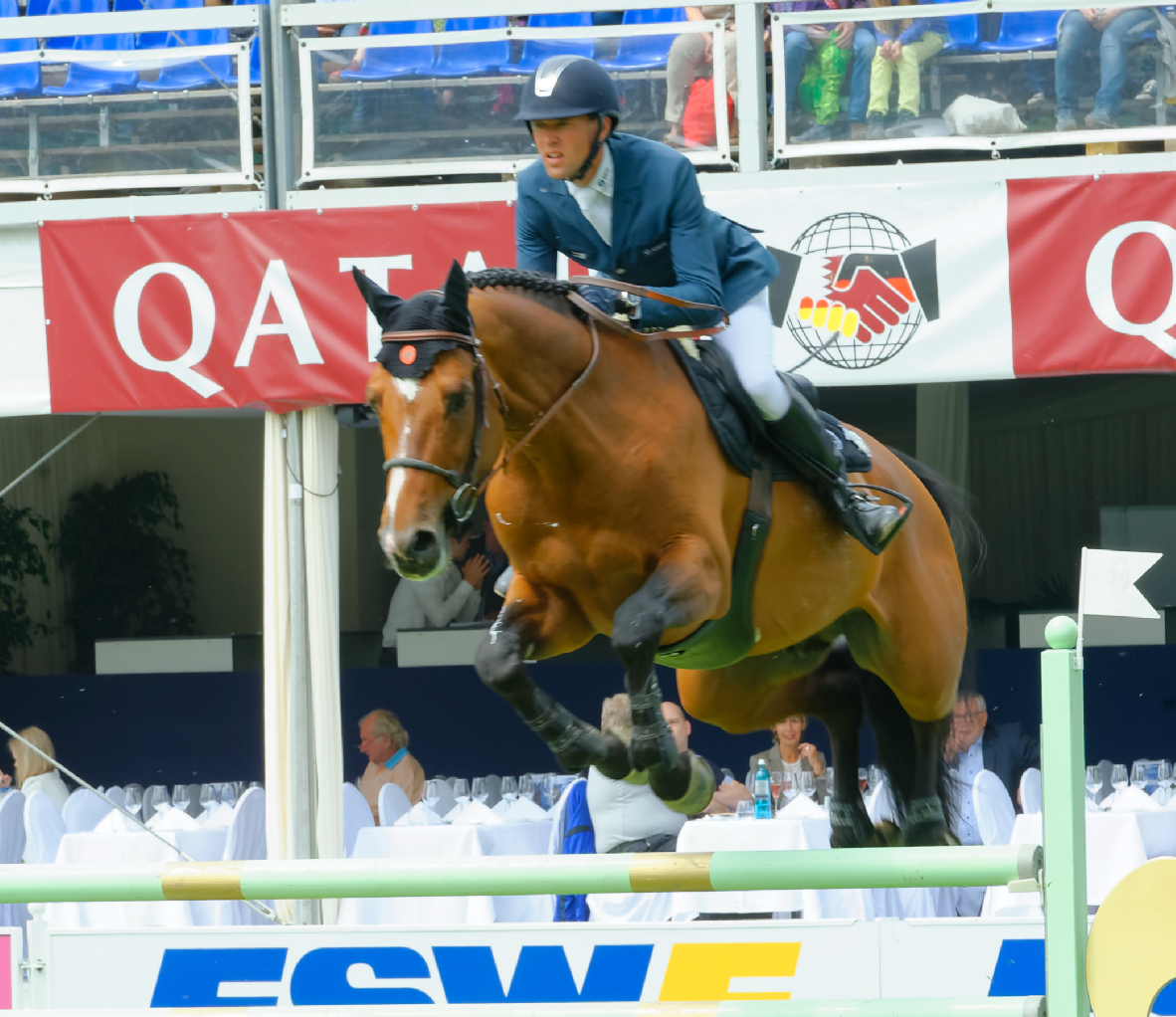 CSIYH* int. Springprüfung nach Strafpunkten und Zeit Internationales Pfingstturnier Wiesbaden 2015 The making of this document was supported by the Community-Budget of Wikimedia Germany.